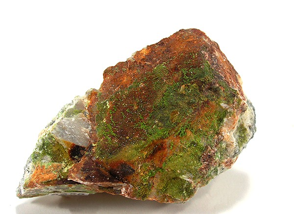 Emmonsite Locality: San Miguel Mine, Moctezuma, Municipio de Moctezuma, Sonora, Mexico (Locality at ) Size: small cabinet, 6.3 x 4.1 x 1.1 cm Emmonsite Emmonsite is a VERY rare IRON TELLURITE (!) that is known from only a few locales in the world, and then usually only as scattered microcrystals. I have seen only a few specimens ever that have crystals larger than this. This specimen has , also, extremely rich coverage over a large display area, that makes it fairly significant but also pretty - it looks like green sugar was dropped on the matrix.